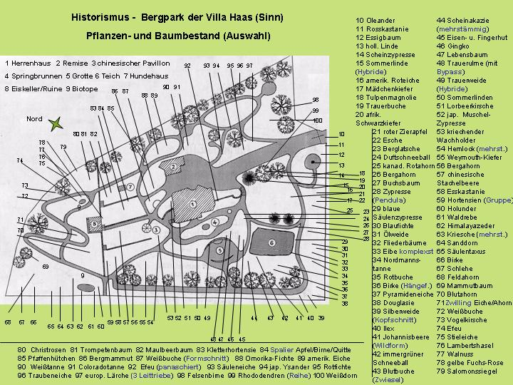 Botanic way through the park auf Villa Haas (Sinn). Representation of typical elements of flowers and trees in a historistic garden.